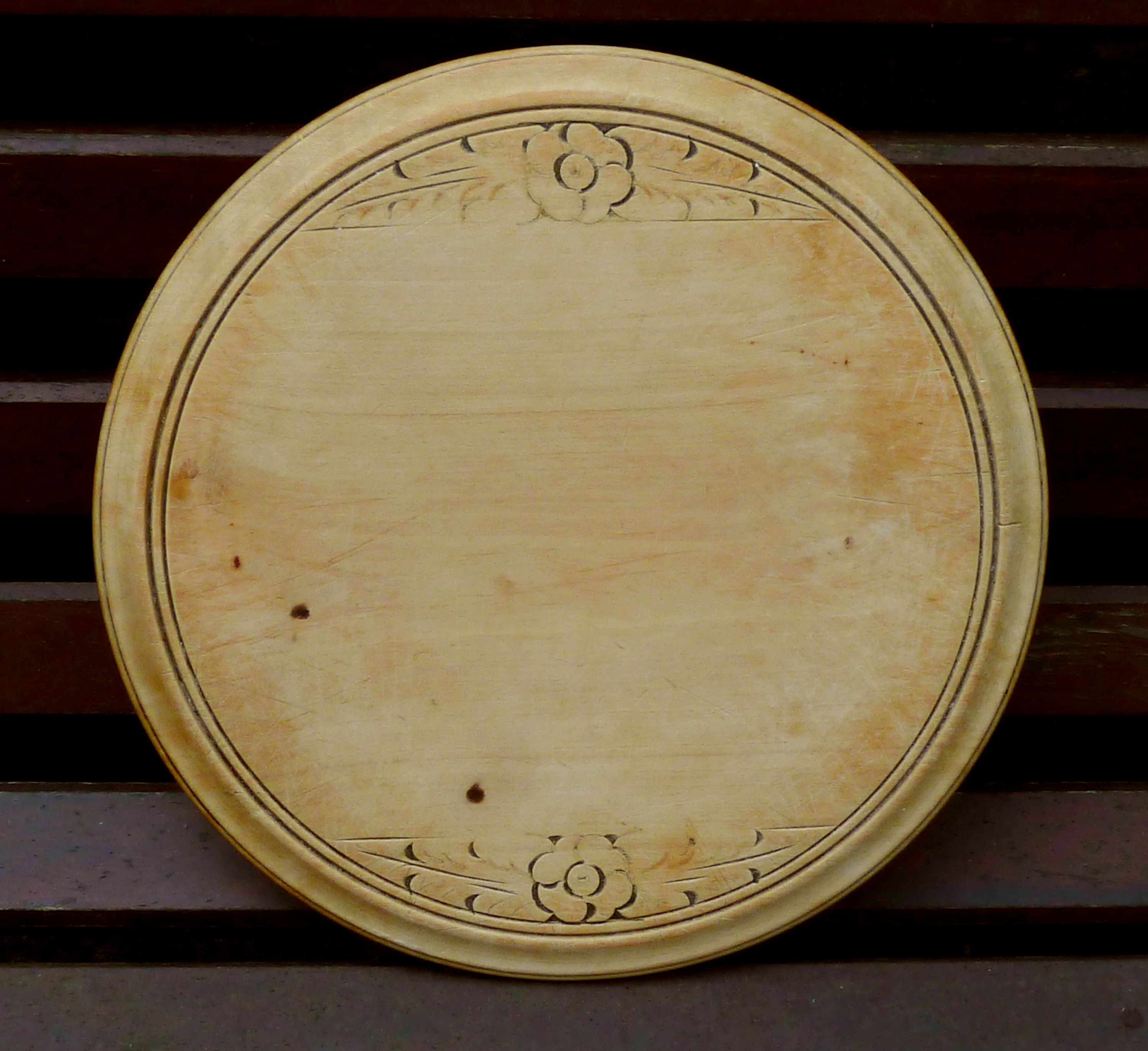 Carved sycamore bread and butter platter (bread board), late 19th century or early 20th century. This type of carved bread board was introduced from Germany into the United Kingdom in 1851 by Prince Albert. At least one established centre for the carving of these platters was Sheffield, England, where two of the 19th-century carvers were Charles Dover and Frederick William Dover (their relationship is unknown). Charles Dover was the father of the Sheffield poisoner, Kate Dover.